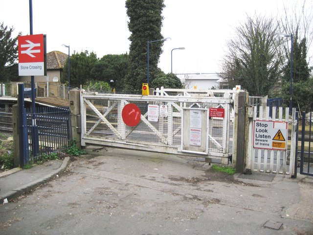 Stone Crossing railway station level crossing In 2008 it is extraordinary that this level crossing, at the foot of Church Hill, is still manned, particularly late on a Sunday afternoon. One wonders how often in a day the gates get opened to let vehicles cross! However the railway station has a direct service to London Bridge, scheduled at 44 minutes every half hour off-peak on weekdays.